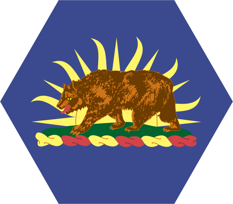 California Army National Guard Shoulder Sleeve Insigna